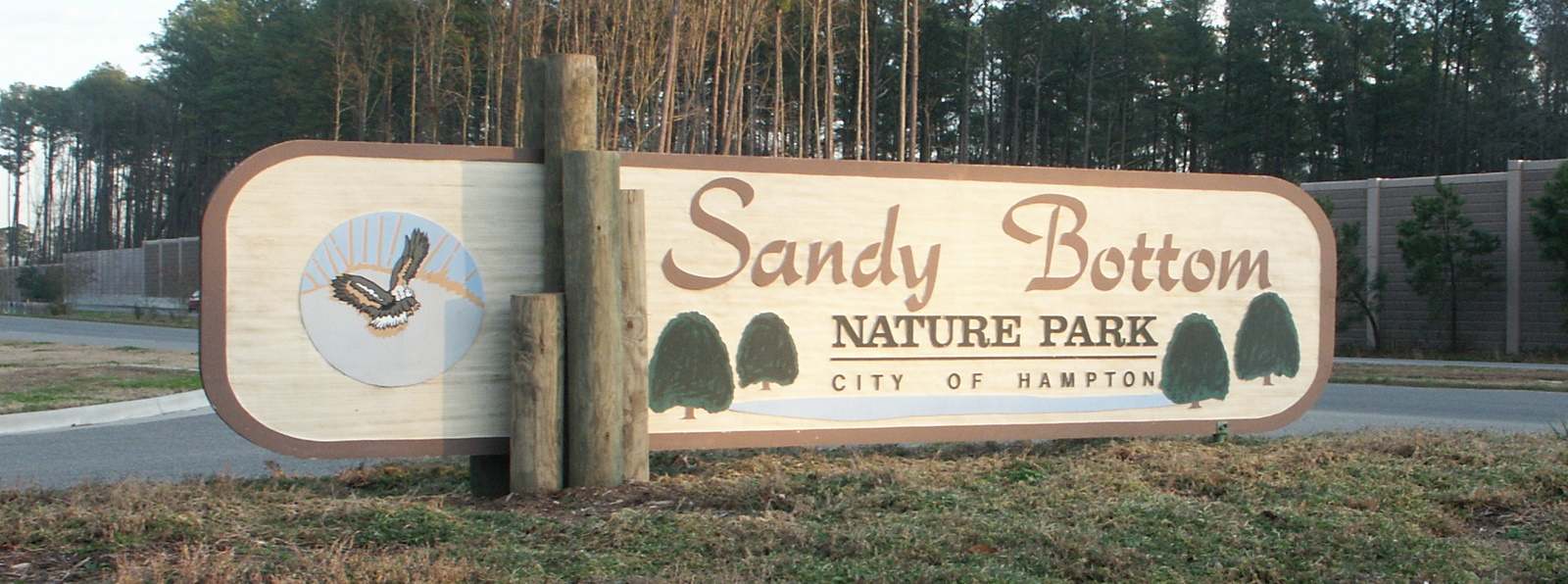 Entrace of Sandy Bottom Nature Park